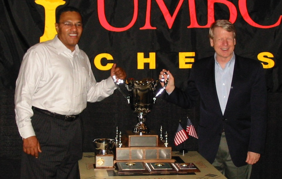 Photo taken at 2008 Final Four at UMBC